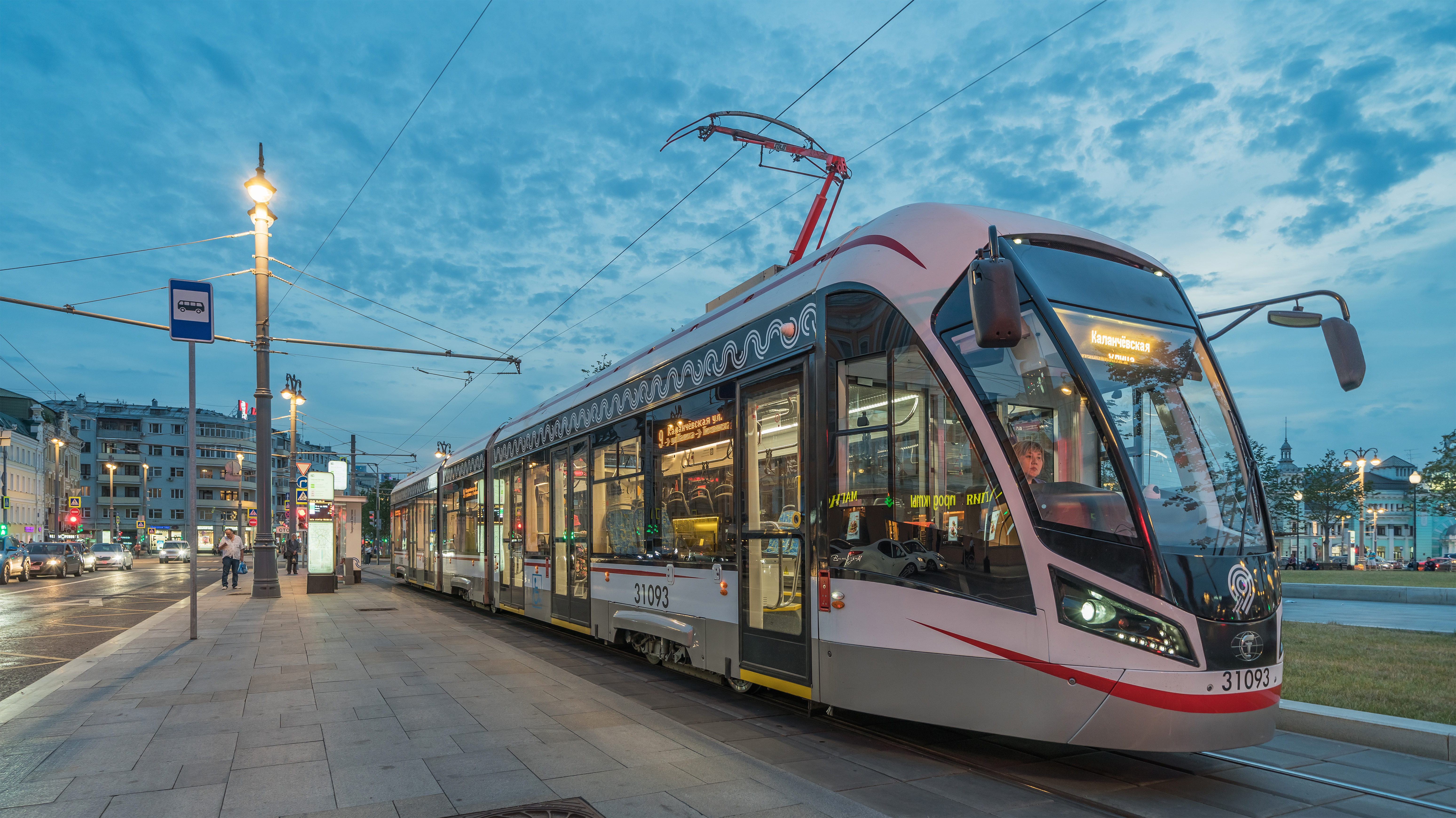 71-931 (Vityaz) tram at Tverskaya Zastava Square in Moscow, Russia